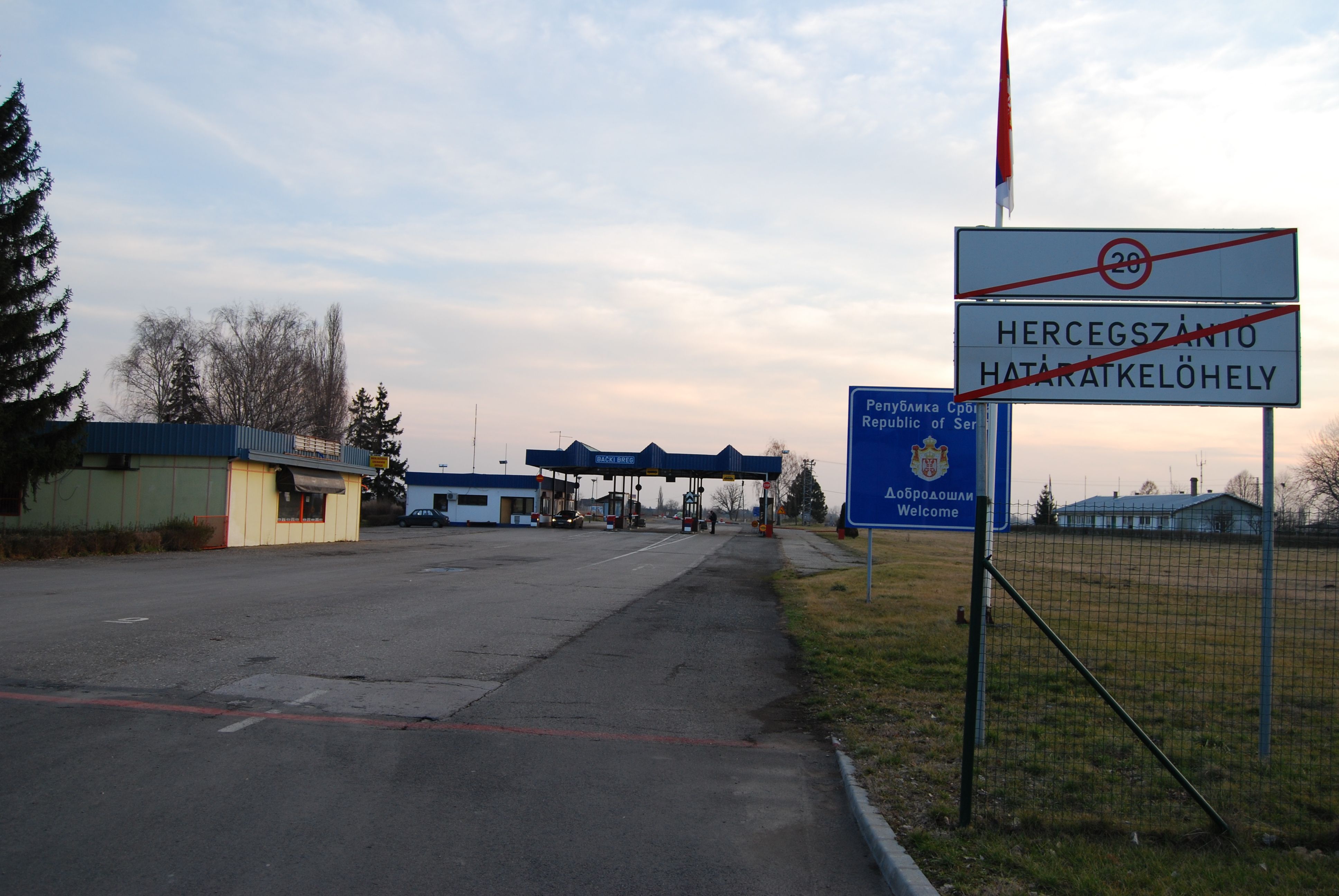 International border between Hungary and Serbia between hungary village Hercegszántó and serbia Backi Breg